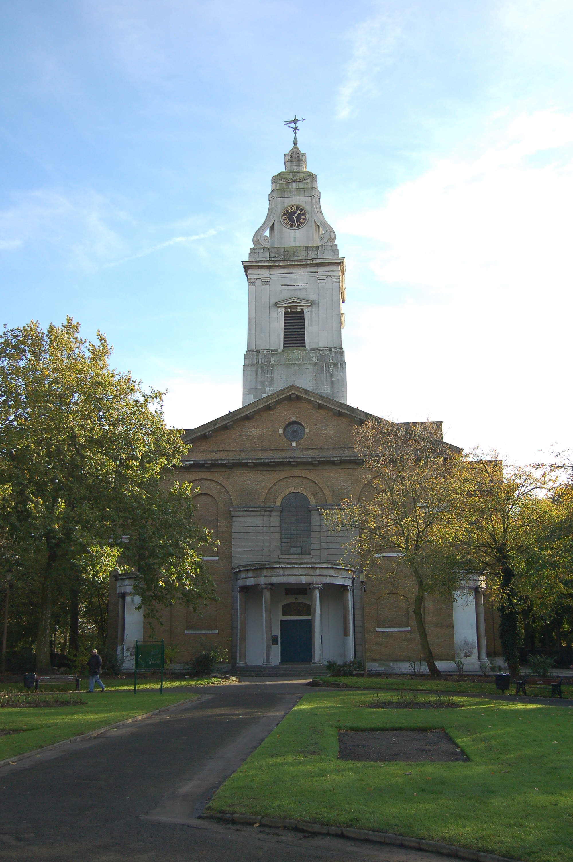 Church of St John-at-Hackney 2008 Use freely, pls attribute - k b thompson